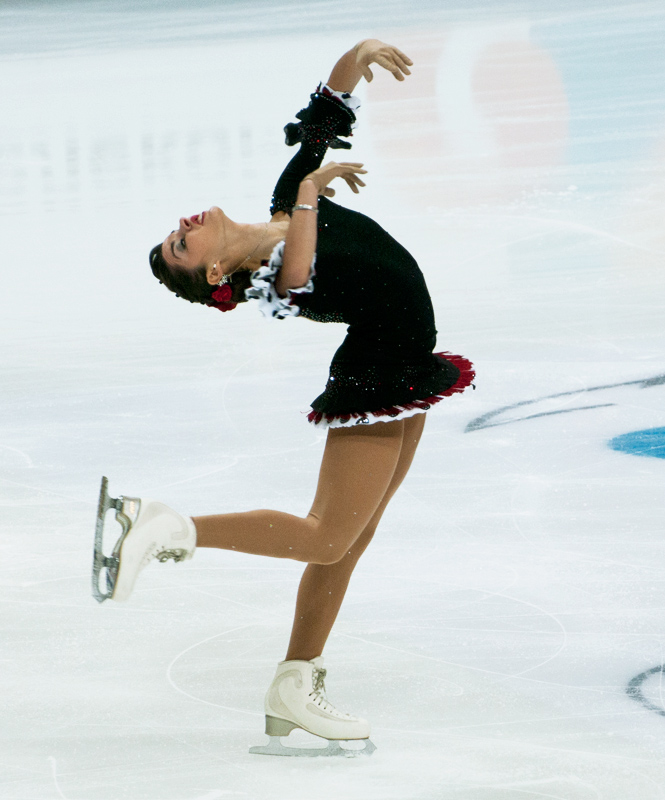 2012 Cup of Russia, ladies' short program.